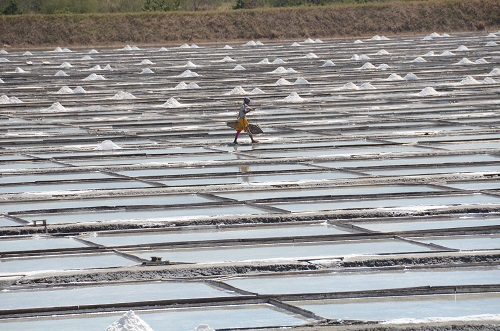 Salt farm in San Jose, Occidental Mindoro which is managed by JALD Industries Corporation.